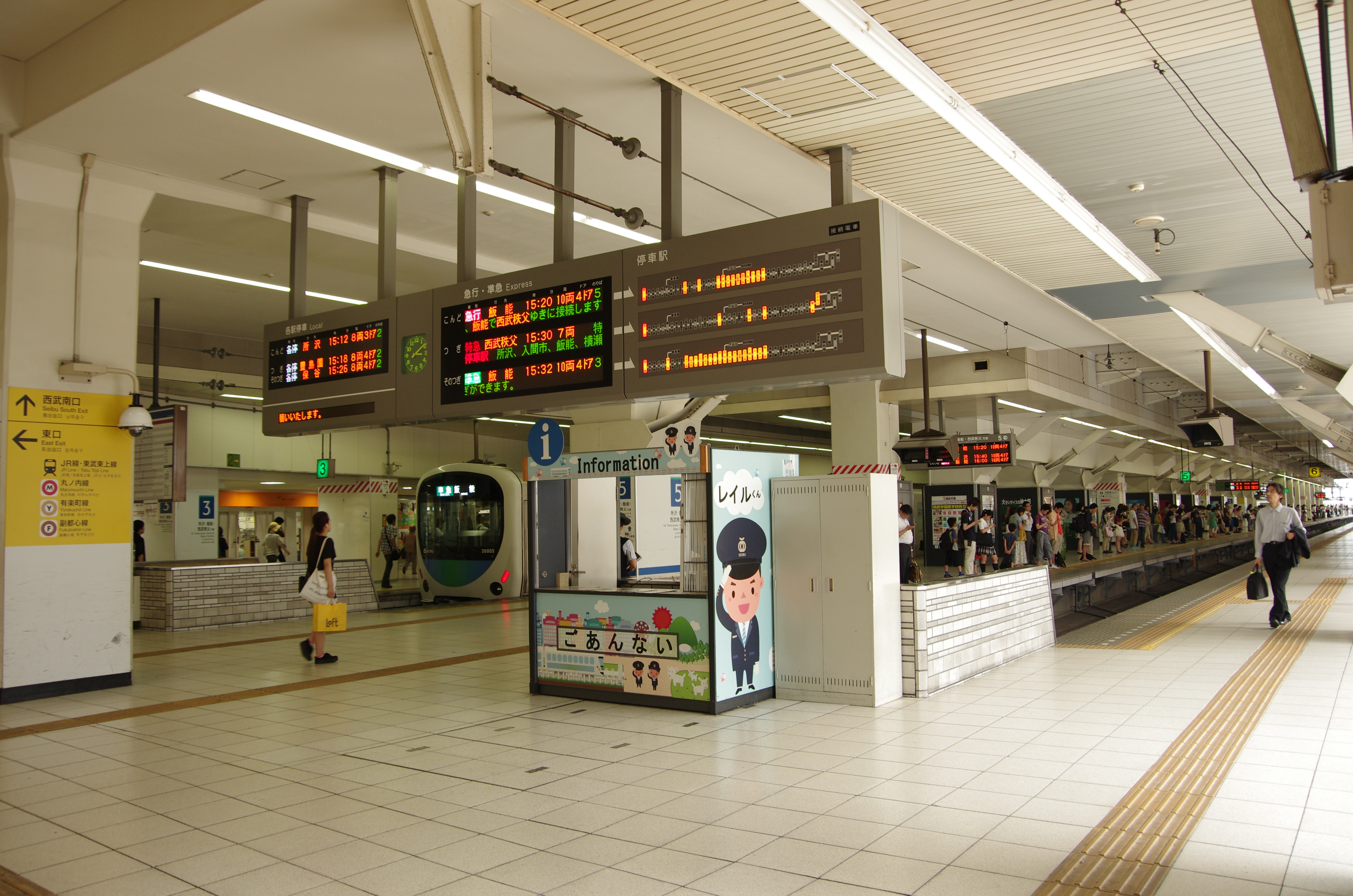 The Seibu Ikebukuro Line platforms at Ikebukuro Station in Tokyo, Japan